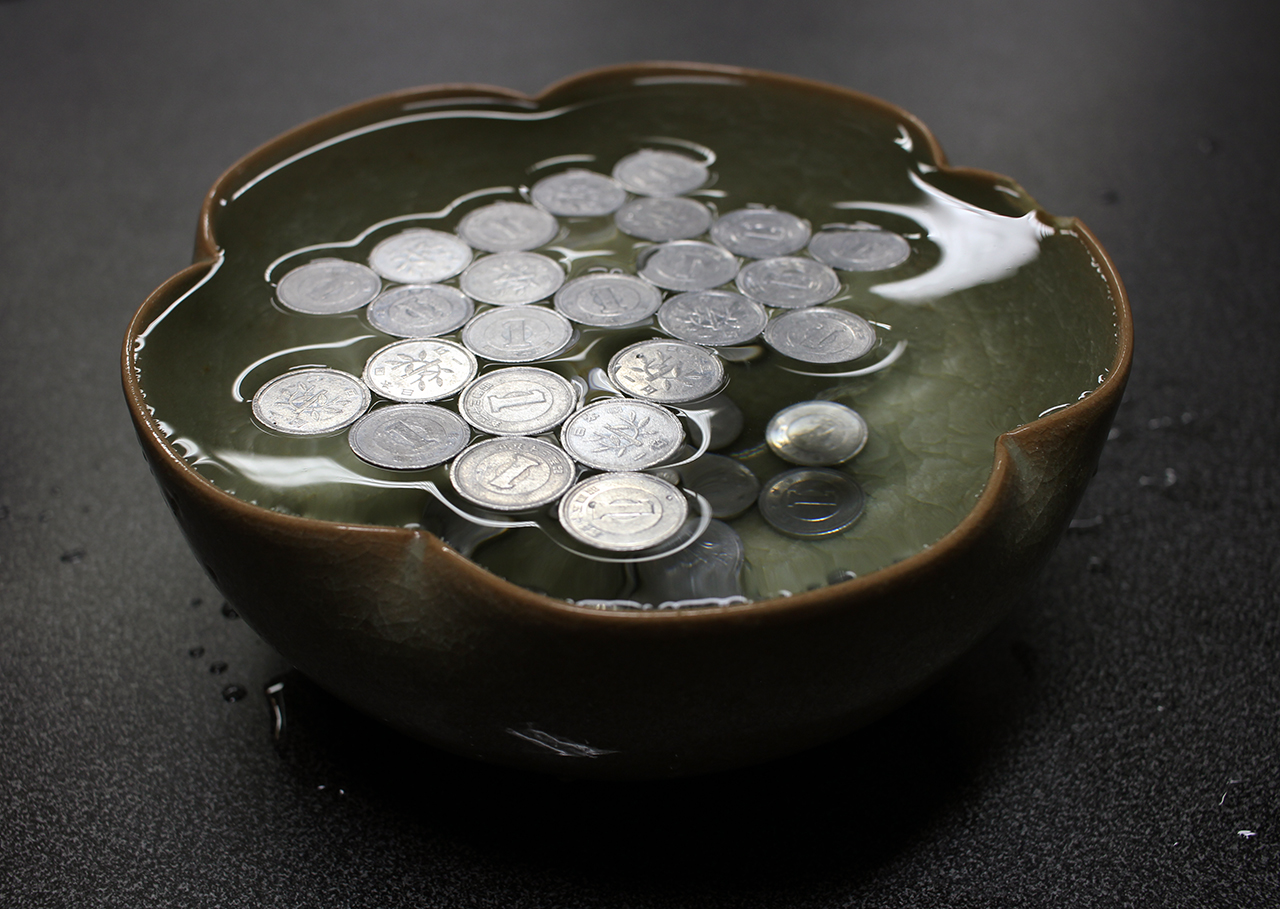 Demonstrating the Cheerios effect with 10 yen coins. Light reflections reveal the curved water surface around the coins.